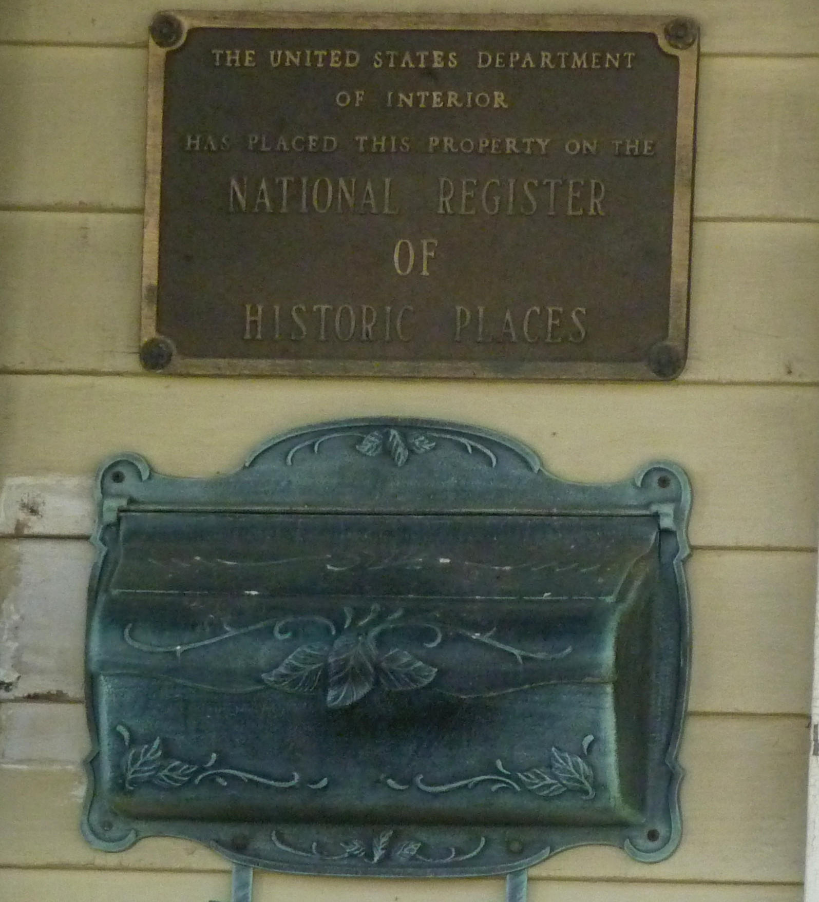 Charles M. Weeks House, 76 Mill Lane Huntington